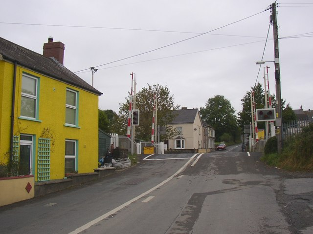 Level crossing, St Clears The railway runs from Carmarthen to Fishguard. There was a station to the right, but it has been closed.